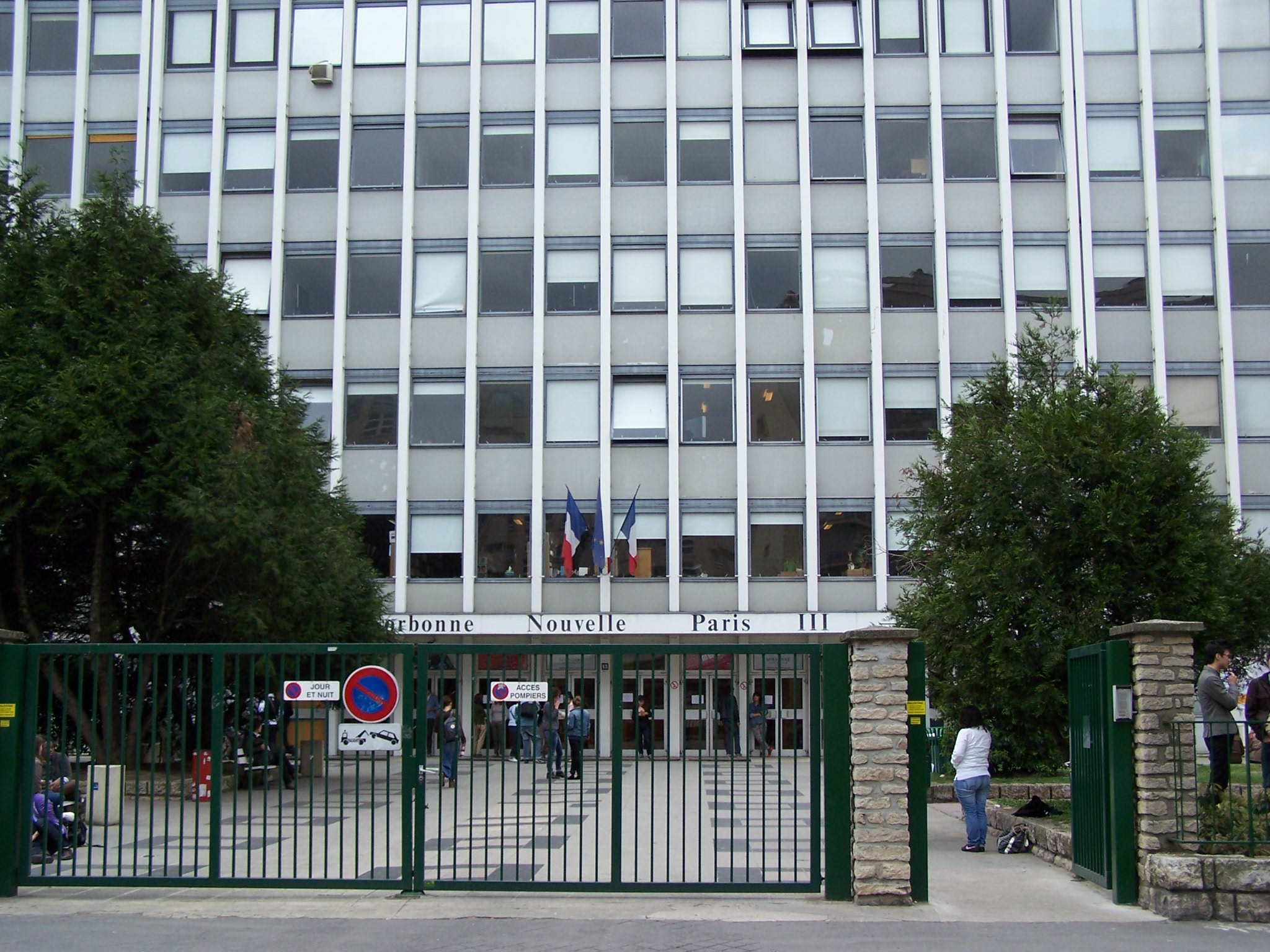 Entrance of the university Sorbonne Nouvelle, rue Santeuil in Paris